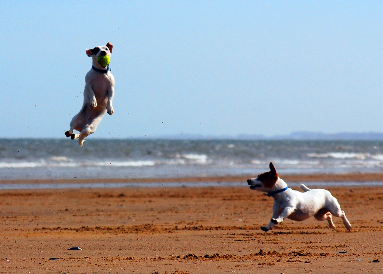 Jack Russell Terrier